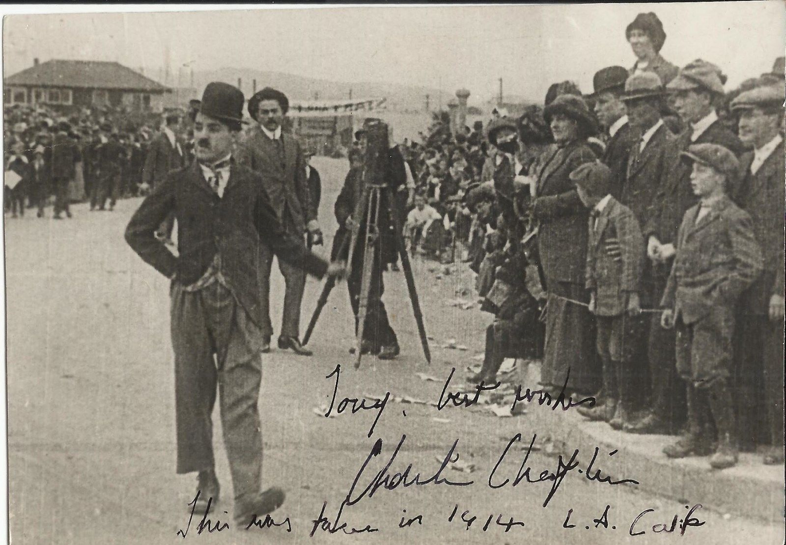 Charlie Chaplin Tramp Screen Debut